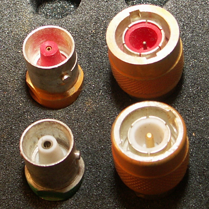 C Connectors. This shows the similarity between 50Ω and 75Ω C connectors. The red ones are 75Ω (only coloured because part of a kit of Inter Series Adaptors. It can be seen that the inner pin of the 50Ω plug is bigger than the 75Ω plug which causes damage if incorrectly used.